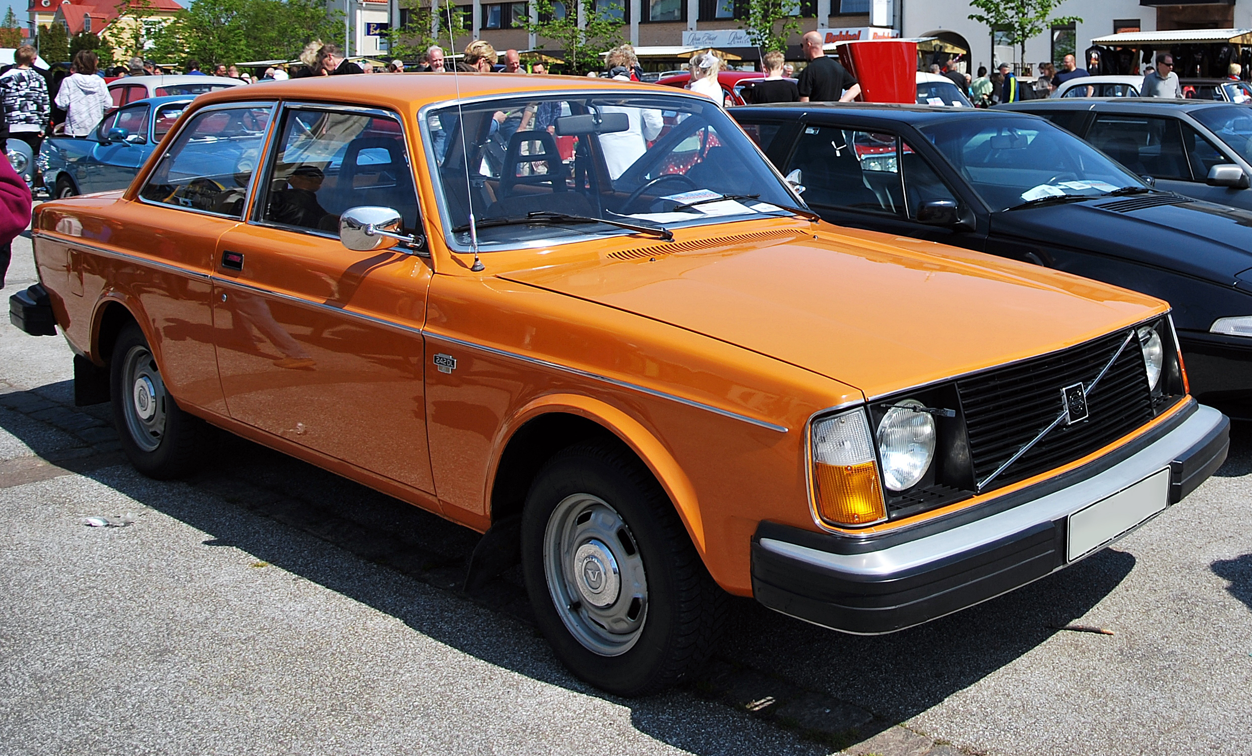 An orange 1976 Volvo 242 at Ölands motordag in Borgholm on Öland, Sweden